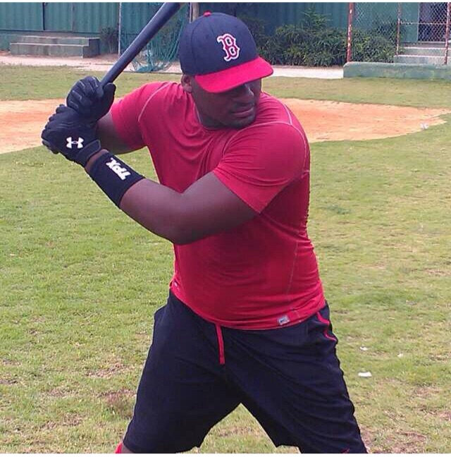 Victor Rivas, Cuban baseball player, in a Boston Red Sox baseball cap, red t-shirt, black shorts, and black gloves.